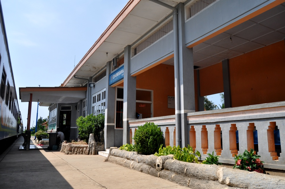 Cipunegara train station in West Java